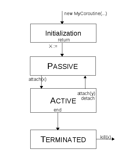 scheme of changes of states of a coroutine object